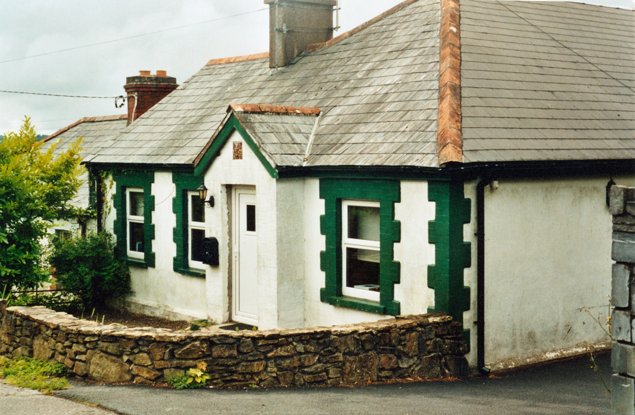 Image of a model "Sheehans' Cottage", in Tower Village, near Blarney Co. Cork. Ireland.It displays one of the cottages in a model village errected around 1909, in accordance with a concept developed by D. D. Sheehan MP.